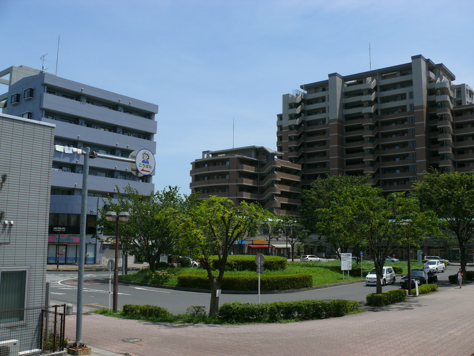 East Japan Railway Shin-Shiraoka Station East side district.